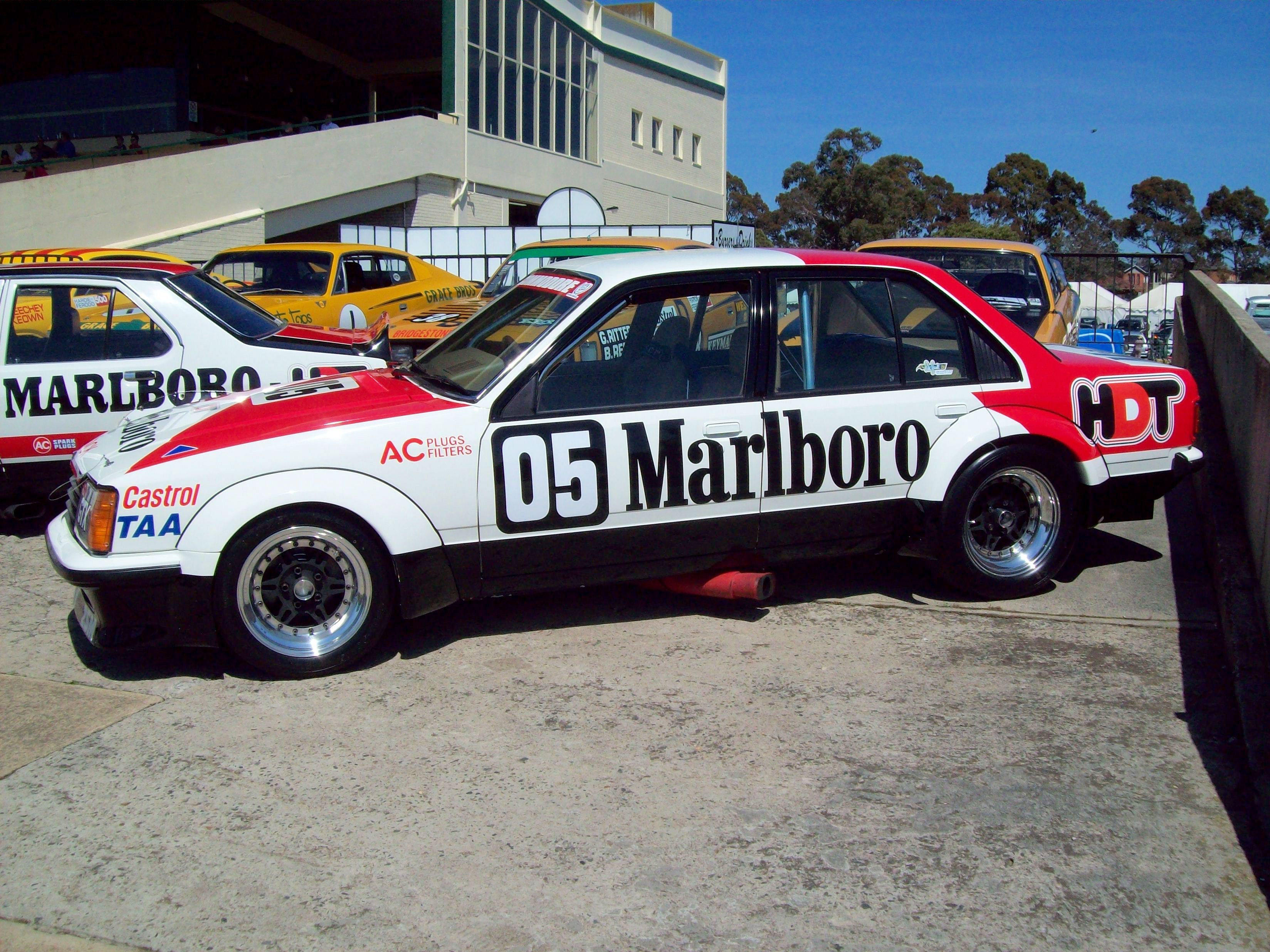 Peter Brock's 1980 Australian Touring Car Championship winning Holden VB Commodore on display at the 2009 Historic Sandown